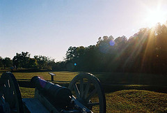 Star Fort Battlefield at sunset. by Christina Croft.